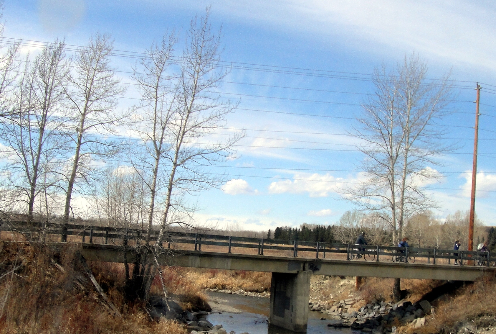 Bow Bottom over Fish in Calgary, Alberta, Canada